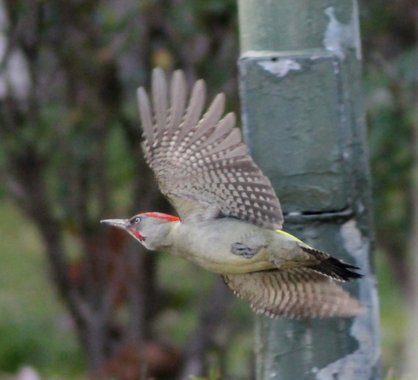 A male Iberian Woodpecker (Picus sharpei) in Madrid (Spain).